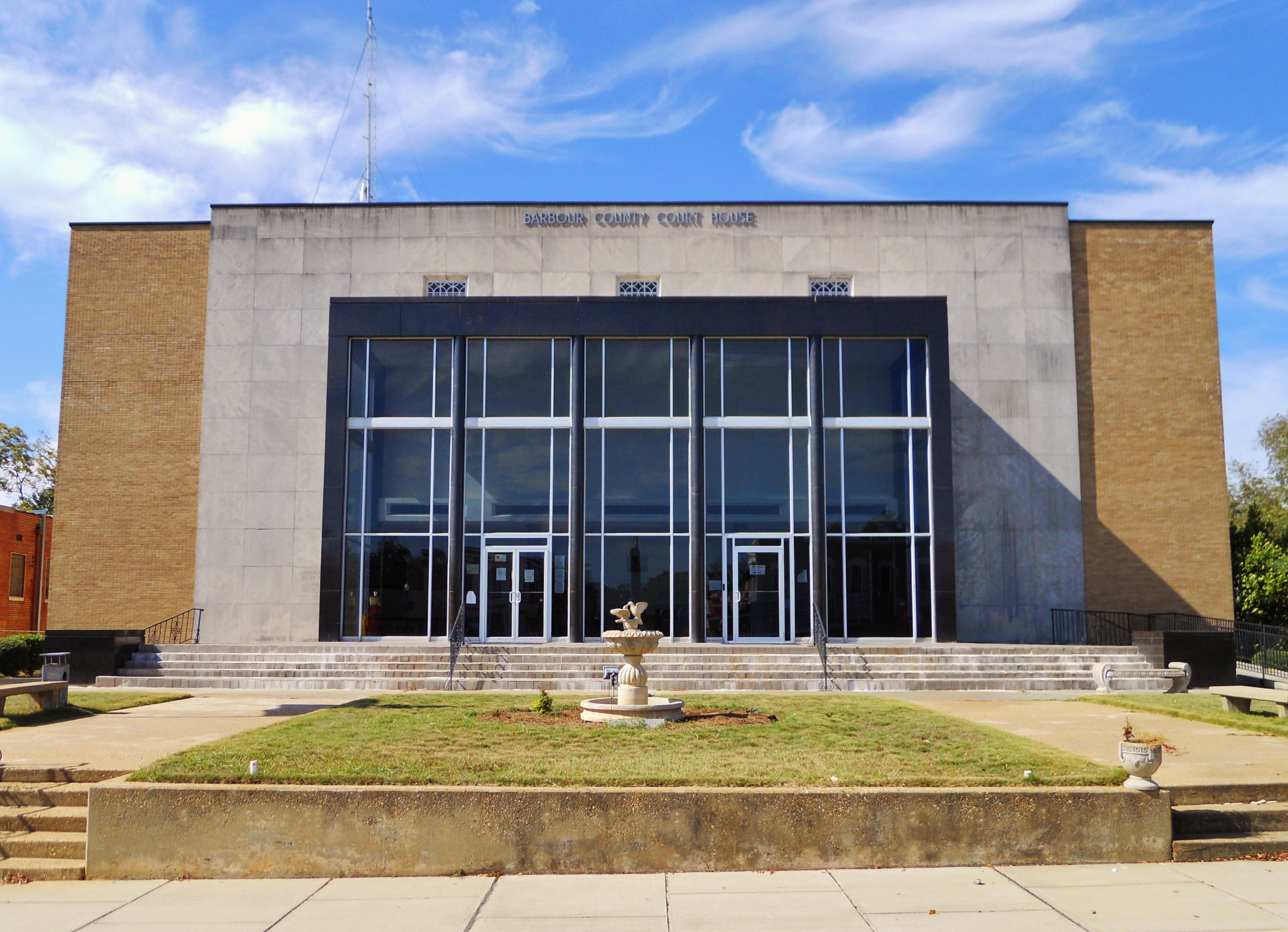 This is a photo of the Barbour County Courthouse in Clayton, Alabama.